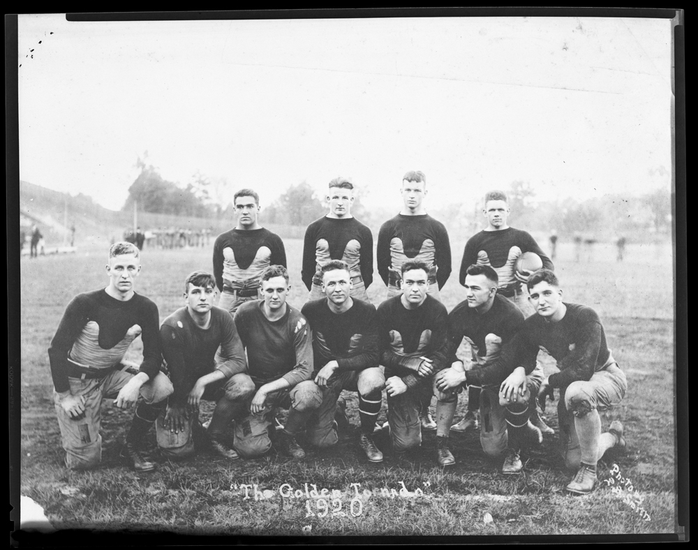 1920 Georgia Tech football starters